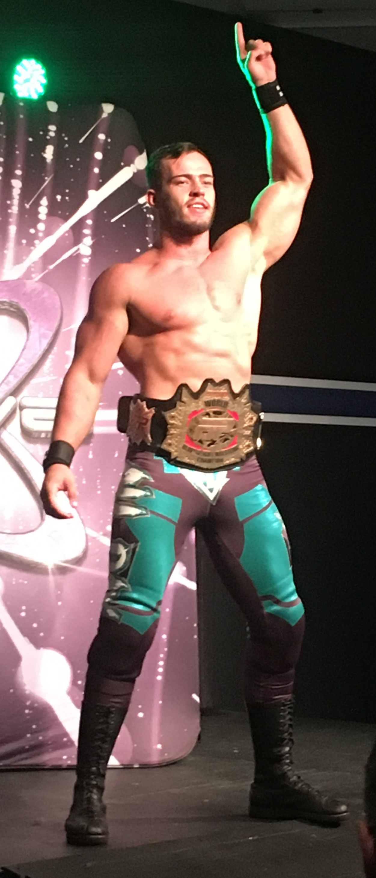 Pro wrestler Austin Theory entering the MCW Arena in Joppa, MD on September 7th, 2018